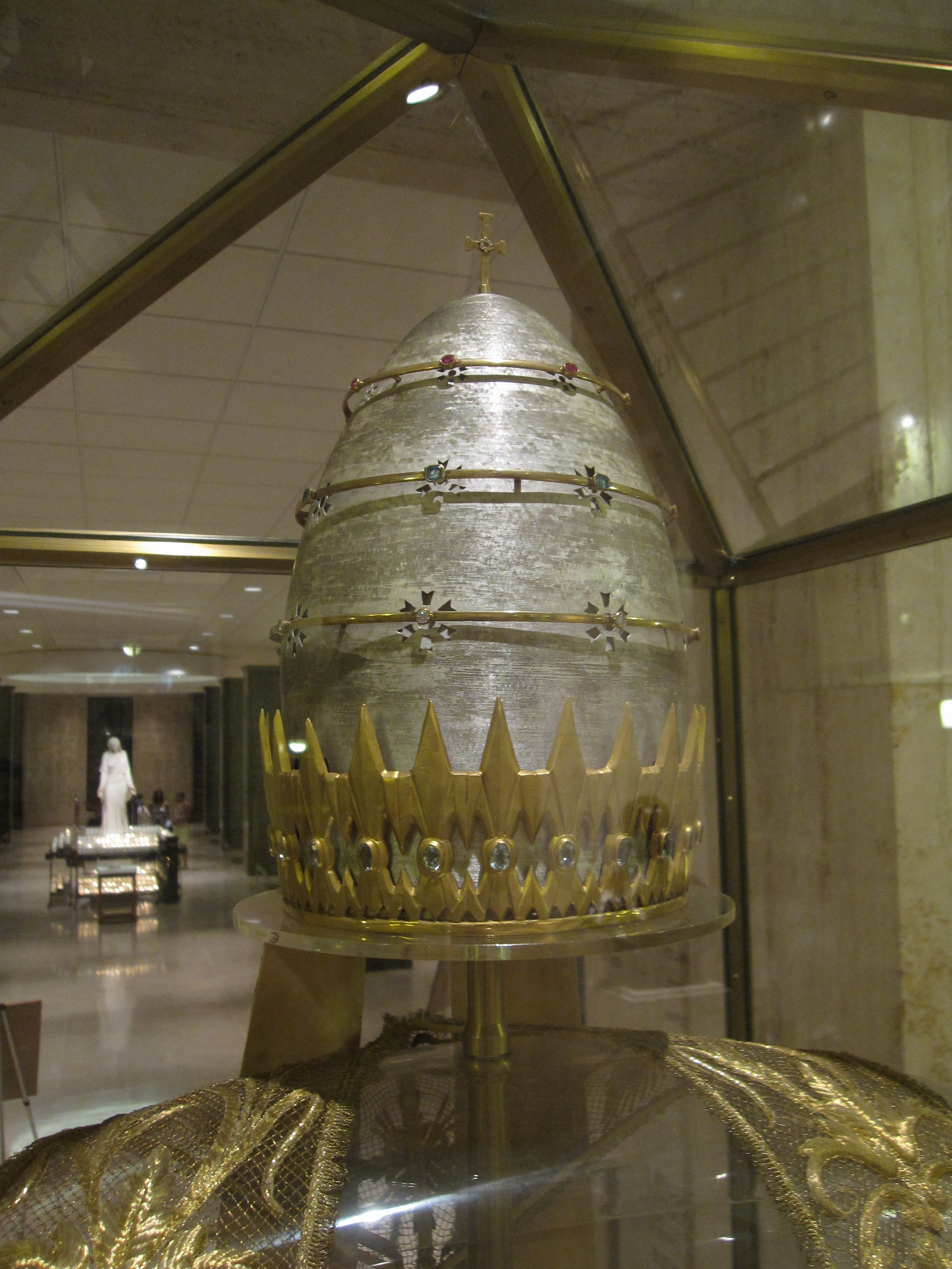 Interior of the Basilica of the National Shrine of the Immaculate Conception in Washington, D.C.